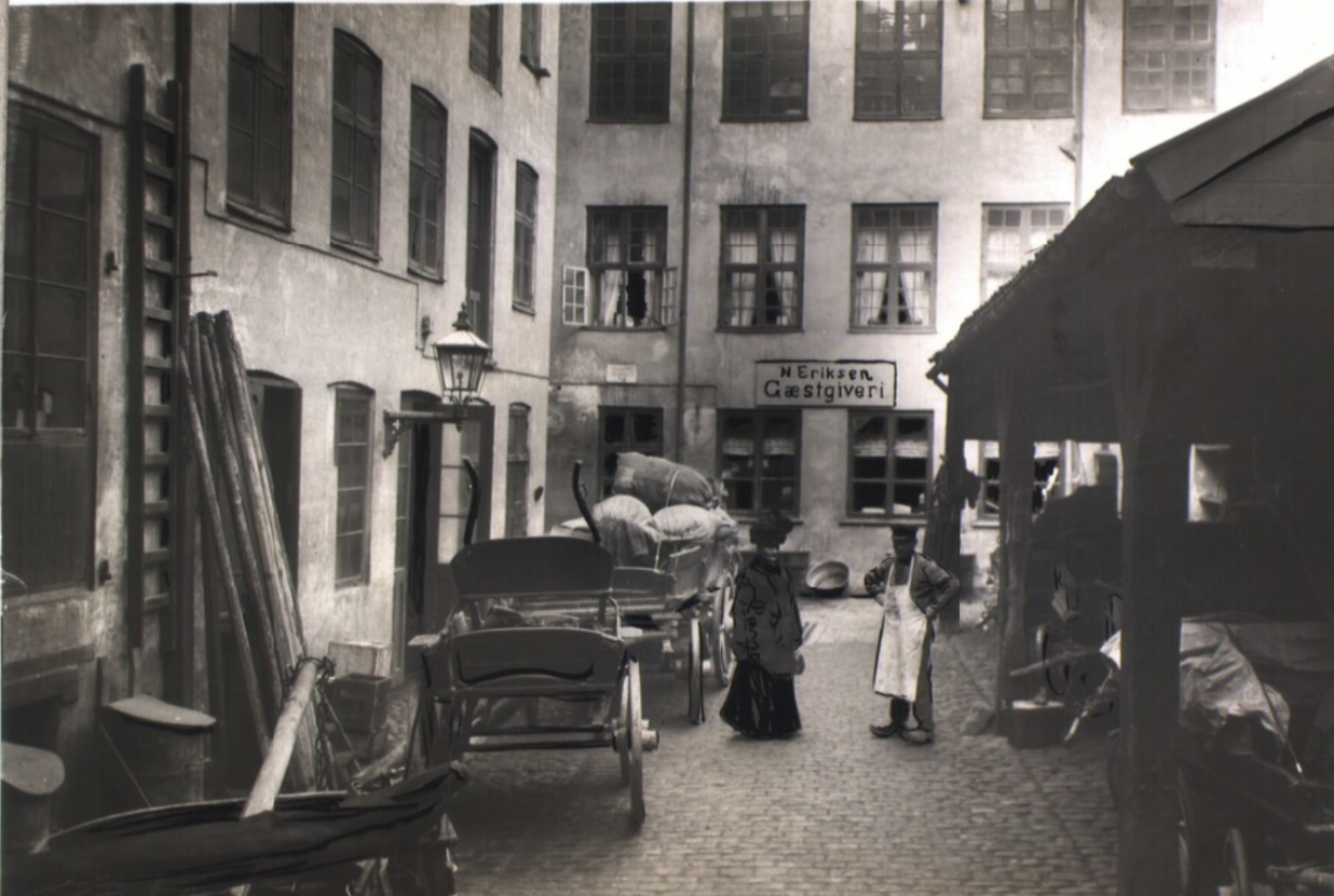 The courtyard of Vestergade 20 in Copenhagen, Denmark